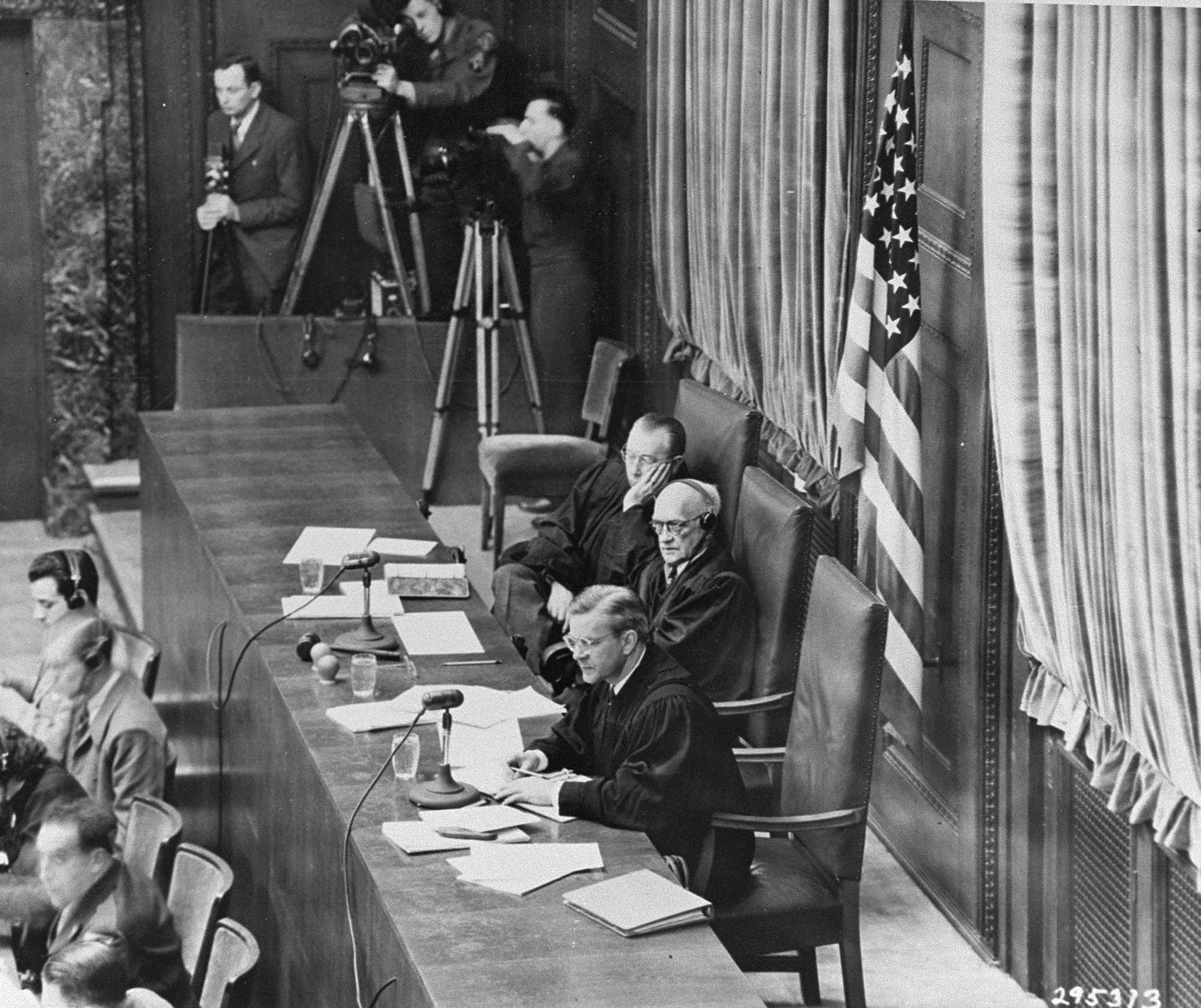 The judges in the Krupp Trial. From back to front: Daly, Anderson (president), and Wilkins.